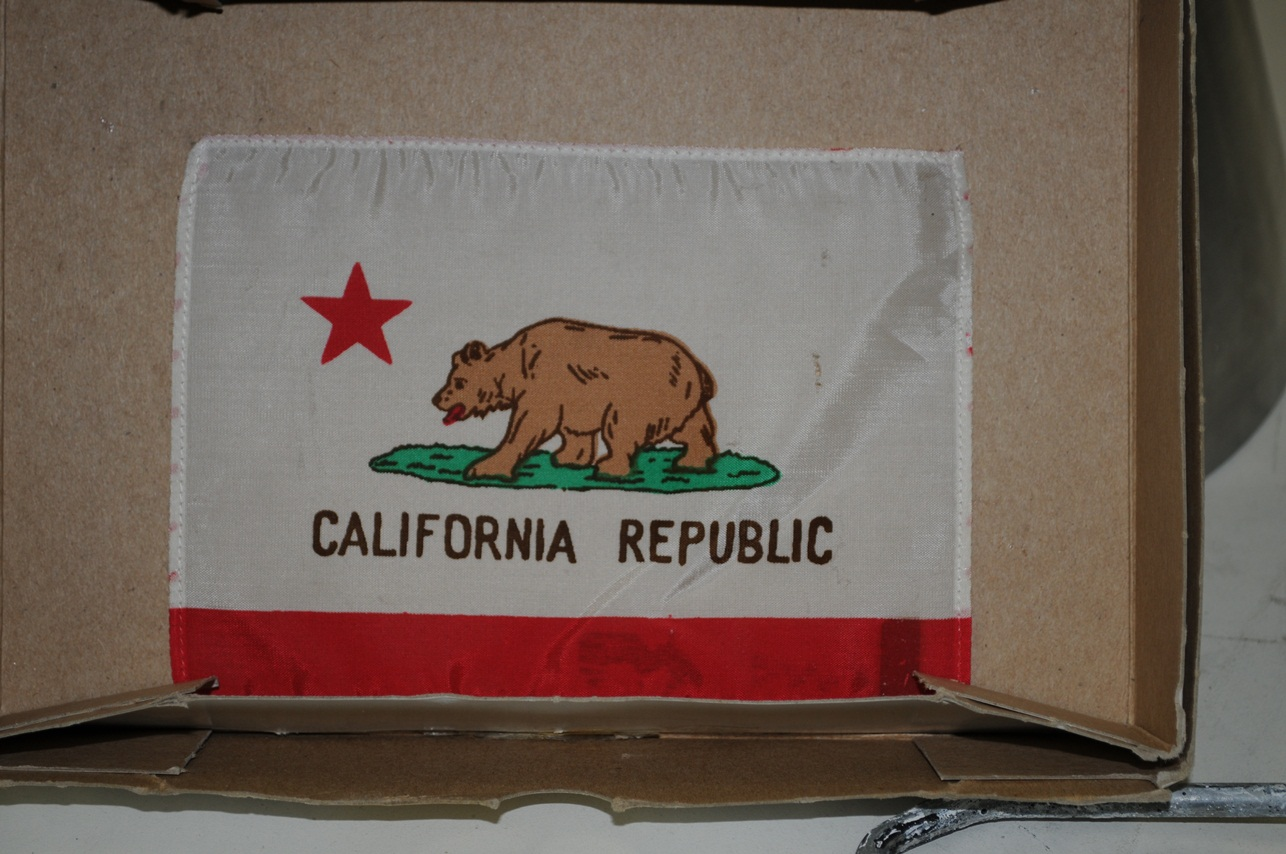 Repository:San Diego Air and Space Museum Archive